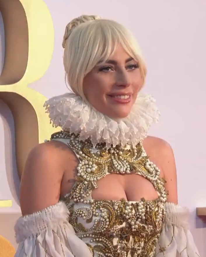 Lady Gaga at A Star is Born premiere in London